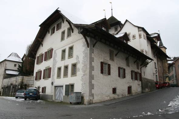 Büren Castle seen from the northwest.